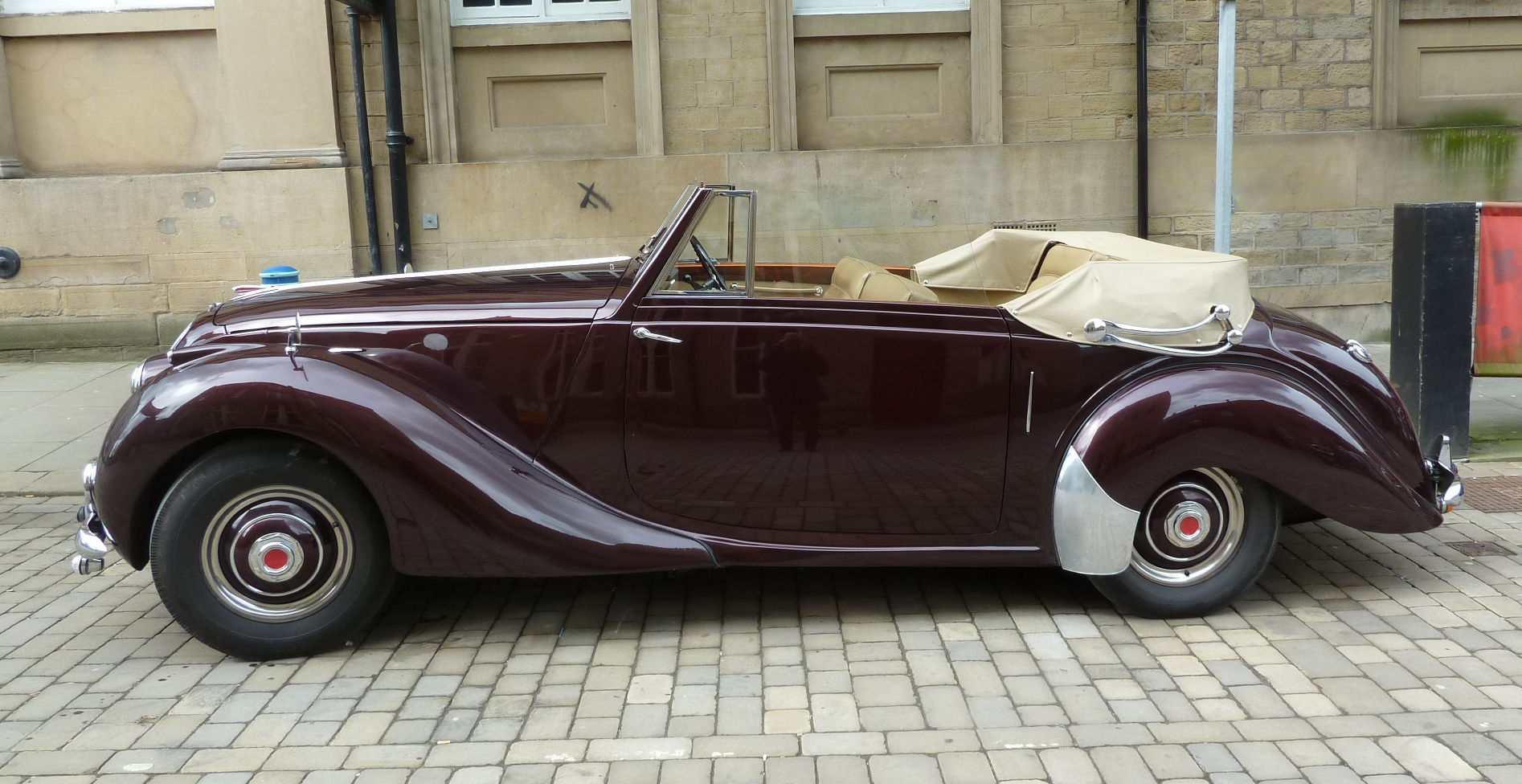 1953 Lagonda 2.6-litre 4 seater drophead coupé by Tickford